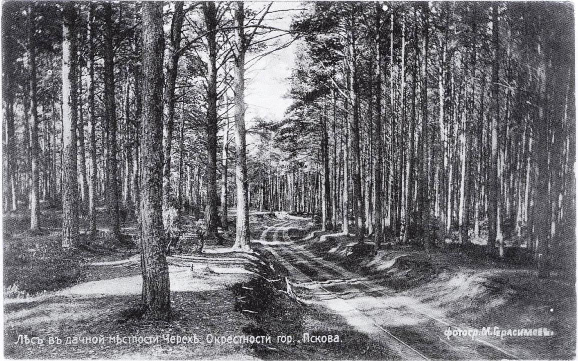 Horsecar tracks at Cherekhinsky forest.